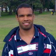 Amos Roberts taken at Roosters Coaching Clinic